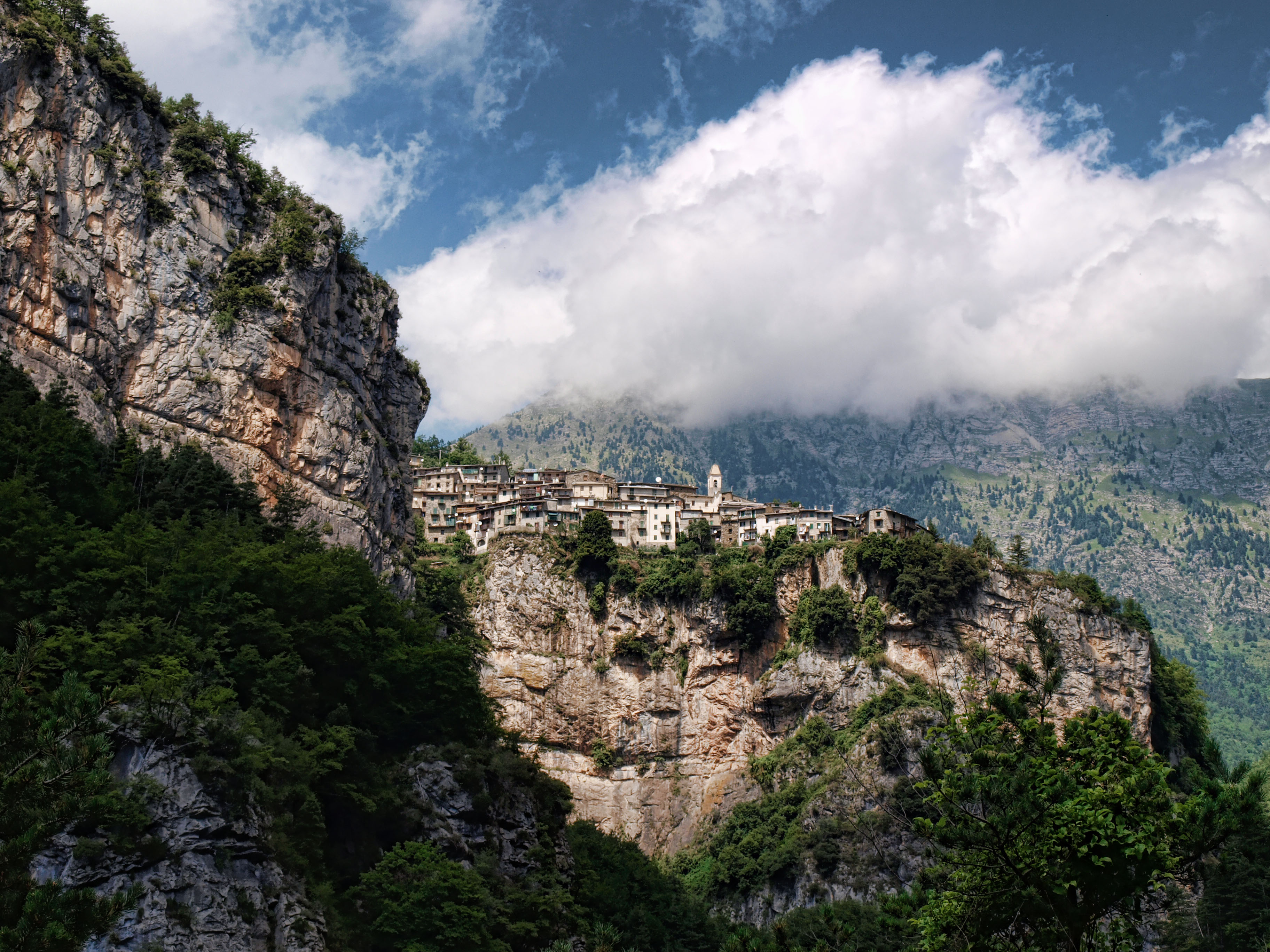 18010 Realdo IM, Italy